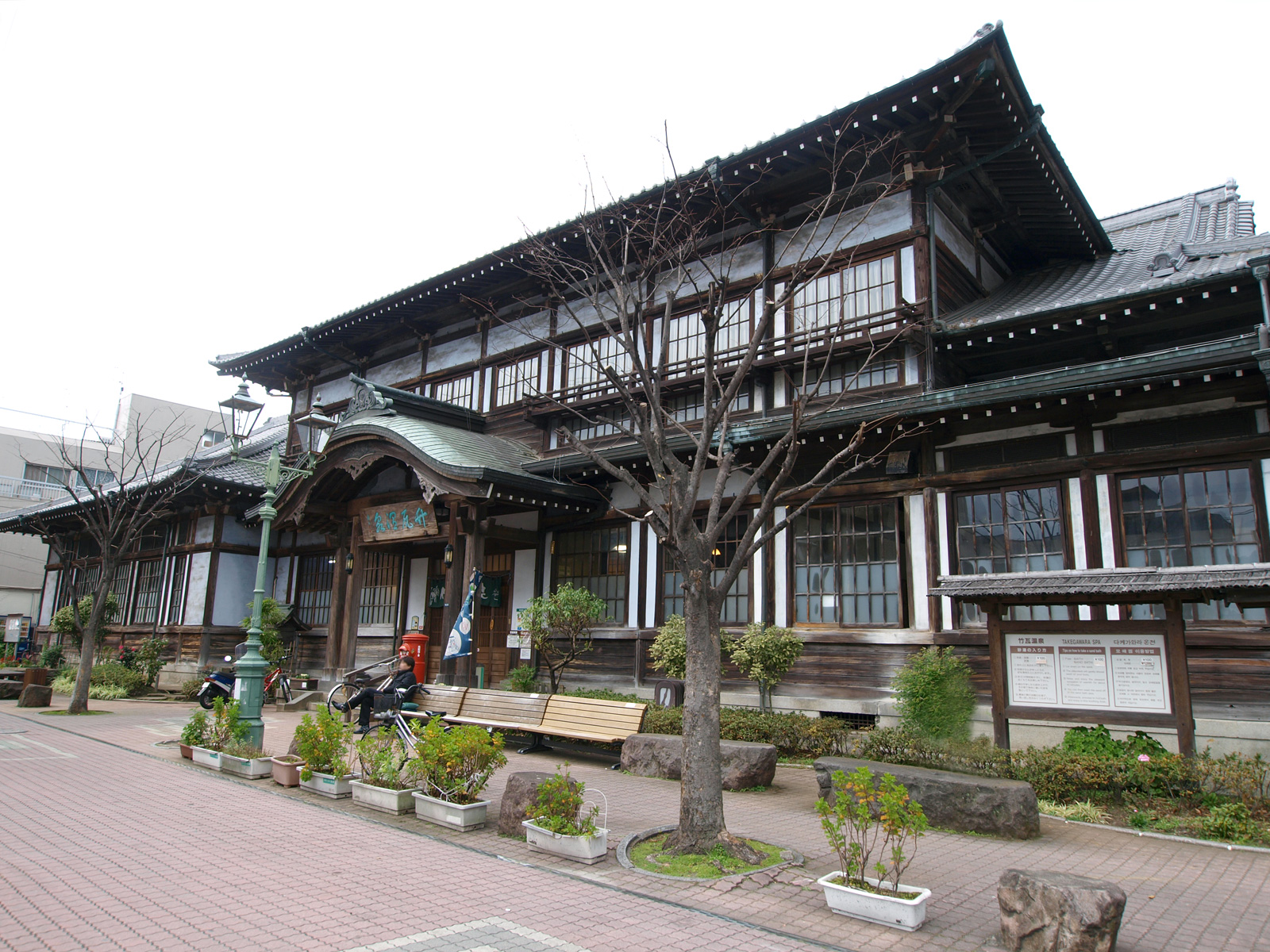 Takwgawara Onsen, Beppu City, Oita Pref., Japan